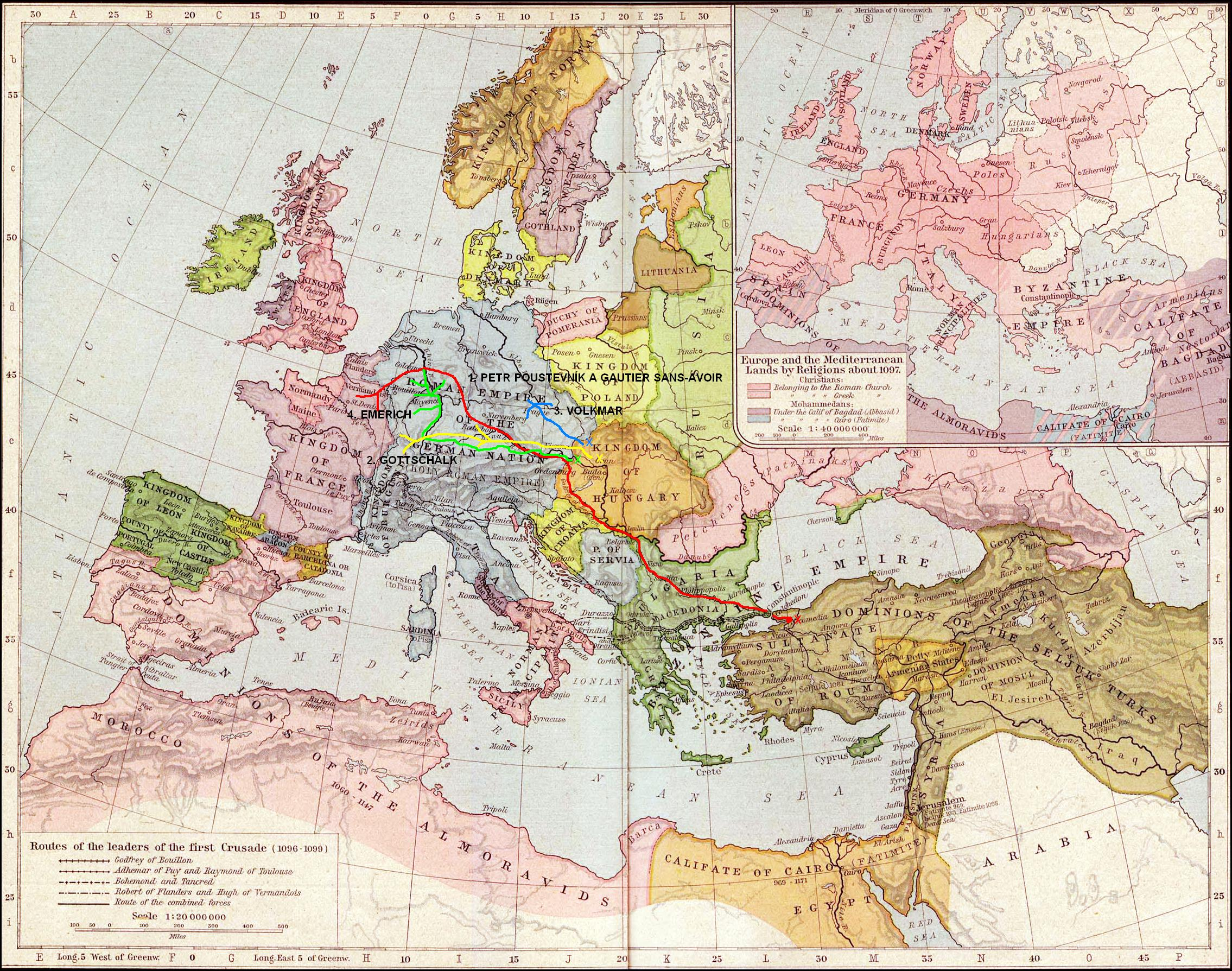 journey of people's crusade